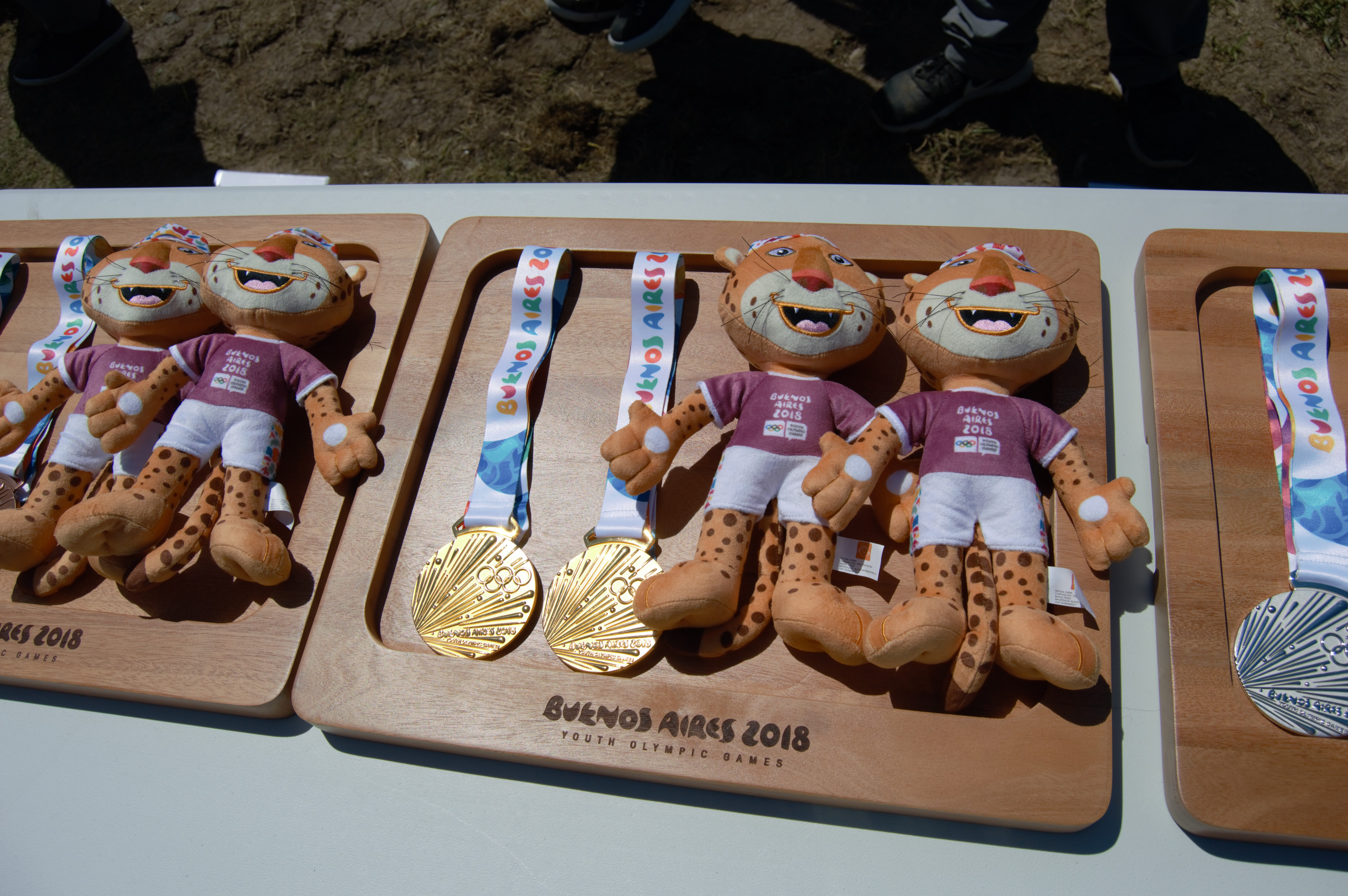 Gold medal of the 2018 Summer Youth Olympics. This particular set was handed over to the winners of the BMX Racing event.